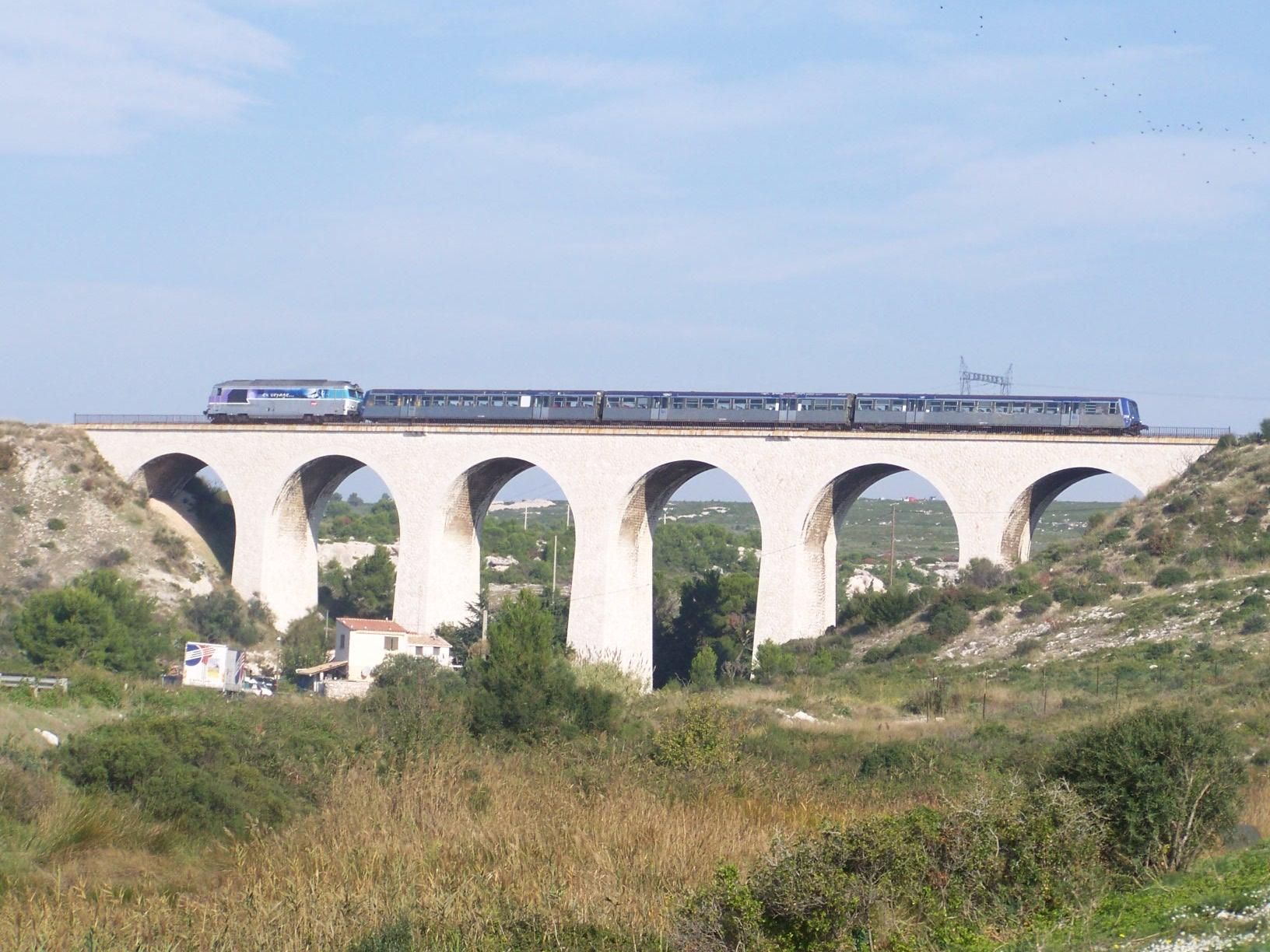 French regional train coming from Marseille and bound for Miramas is passing on the viaduc of Lareraille at La Couronne in Bouches-du-Rhône.